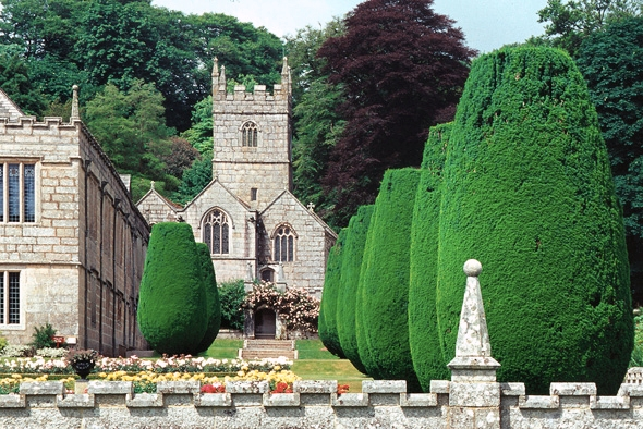 Yew topiary garden (Taxus baccata) at Lanhydrock House - Cornwall, England.